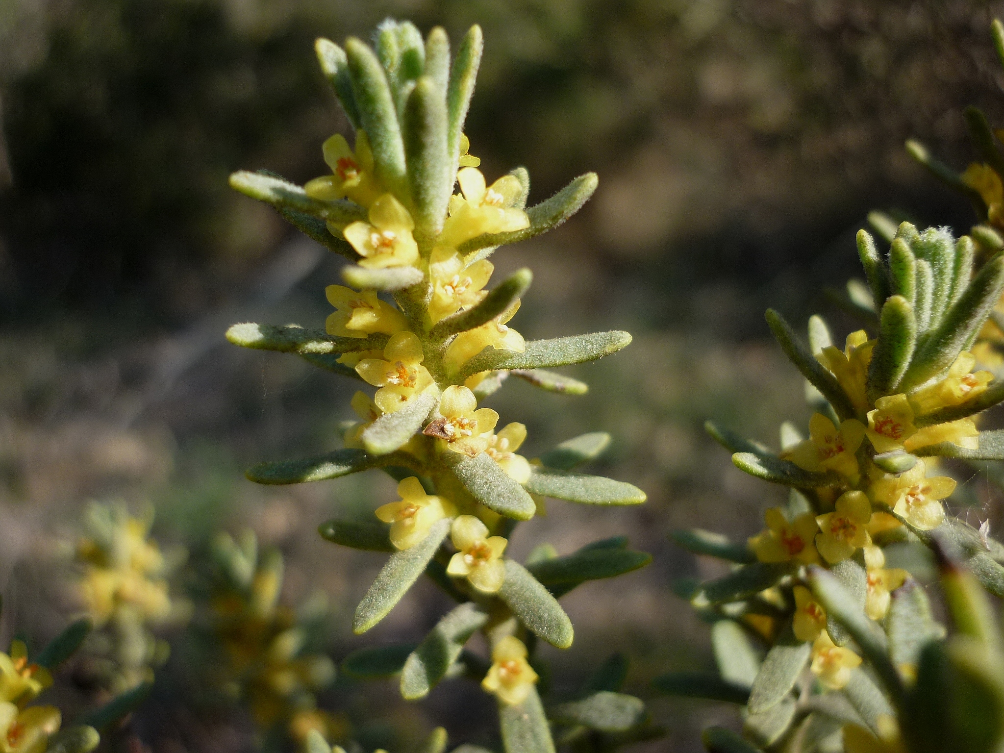 Thymelaea tinctoria. In Torà (Segarra-Catalunya). To 590 m. altitude